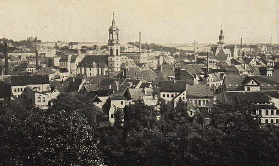 This is an old picture postcard of Werdau in Saxony (Germany).